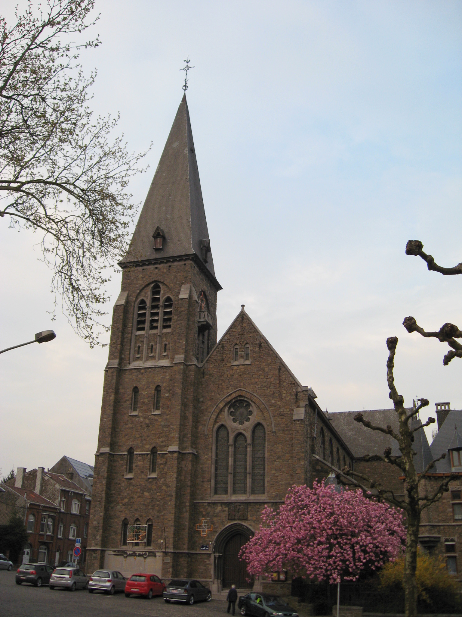 Church of Saint Victor and Saint Leonard in Thier-à-Liège, Liège, Belgium